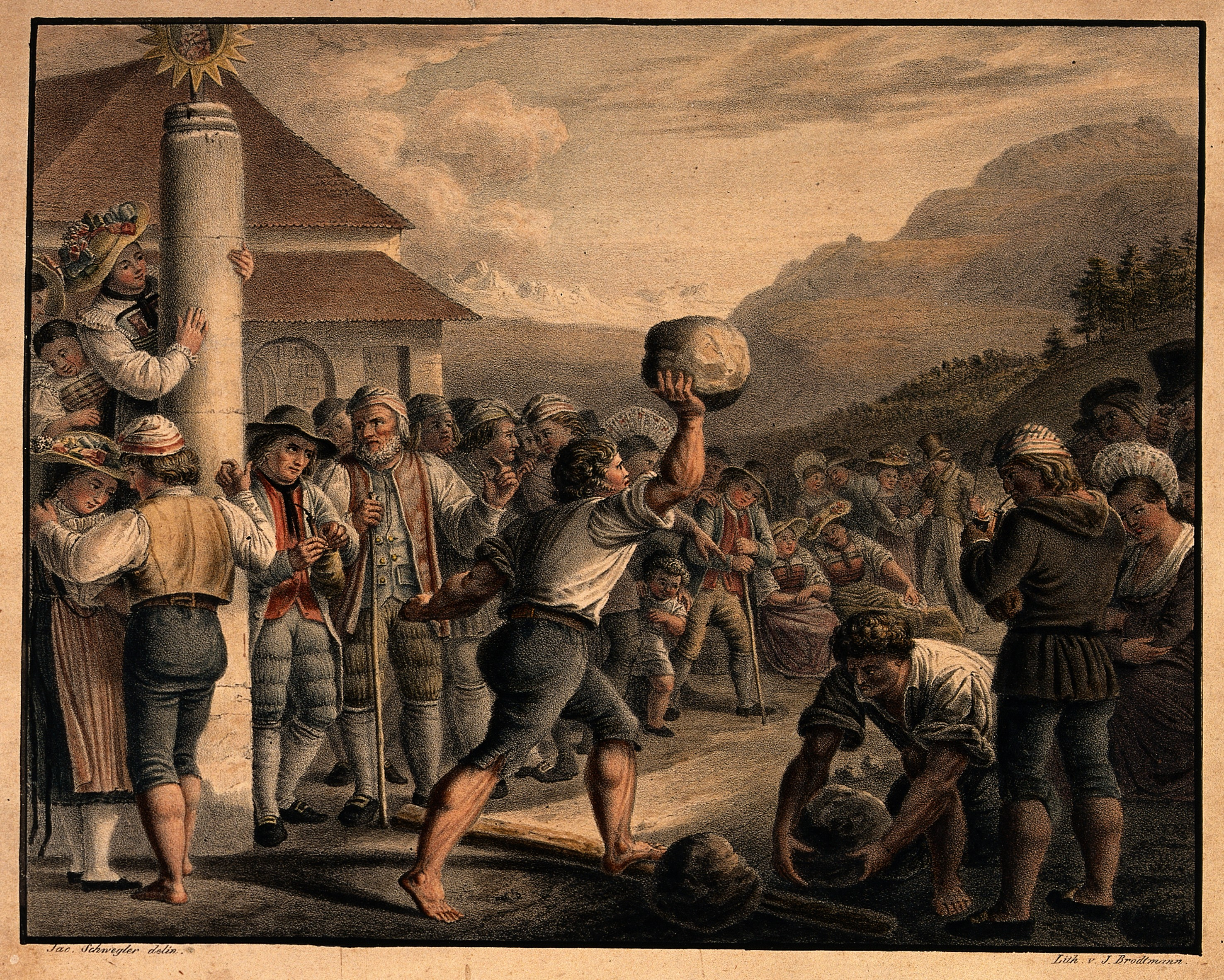 A man is running with a large stone in his hand, another man picks up a stone to join the competition. Coloured lithograph after Jacob Schwegler. Iconographic Collections Keywords: Jacob Schwegler